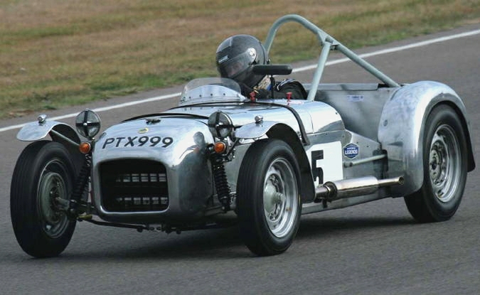 Chris Rea racing in his Lotus Mark VI (6) from 1955. Photo taken at the Goodwood Revival 2009.